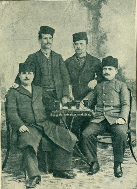 IMARO members from Vrbeni, today Xino Nero, Georgi Pavlov is from Zlatari, Resen region